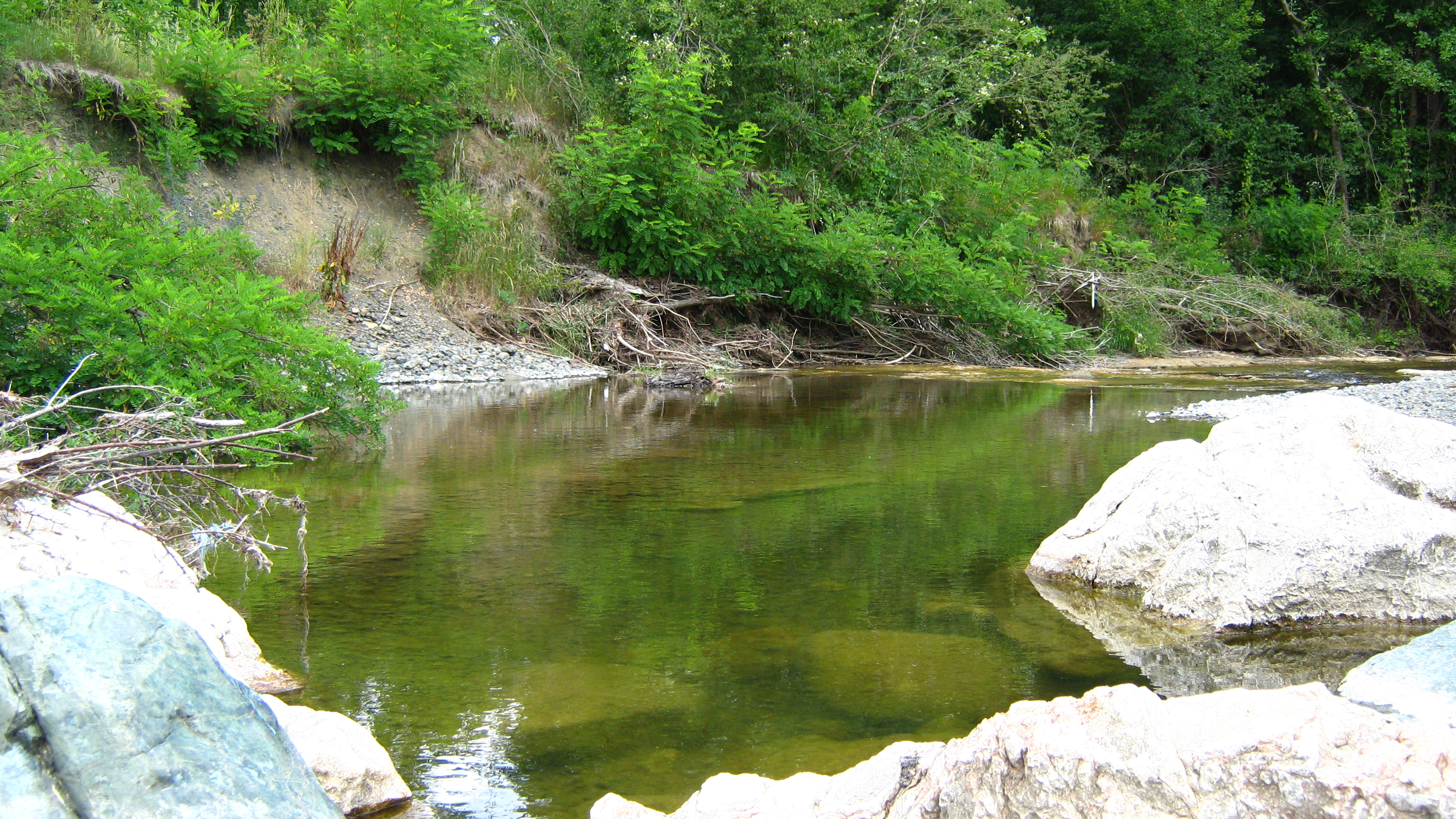 River Mala Ukrina